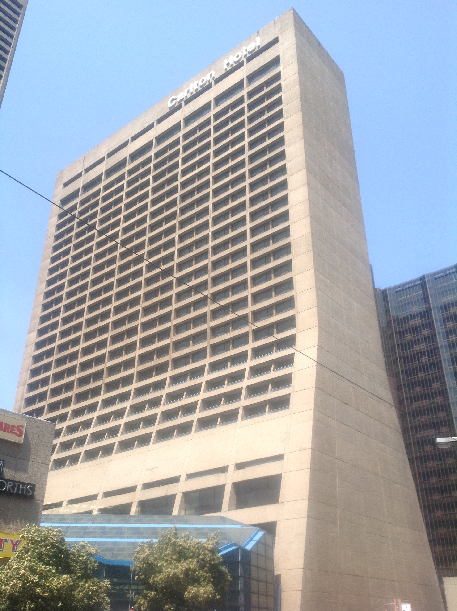 Linked to the Carlton centre, the Carlton Hotel has always been a symbol of Johannesburg's luxury accommodation. Renowned for hosting nelson Mandela inauguration dinner, Sadly closed now... it remains an icon. This media shows a South African Protected Site with SAHRA file reference NEW.